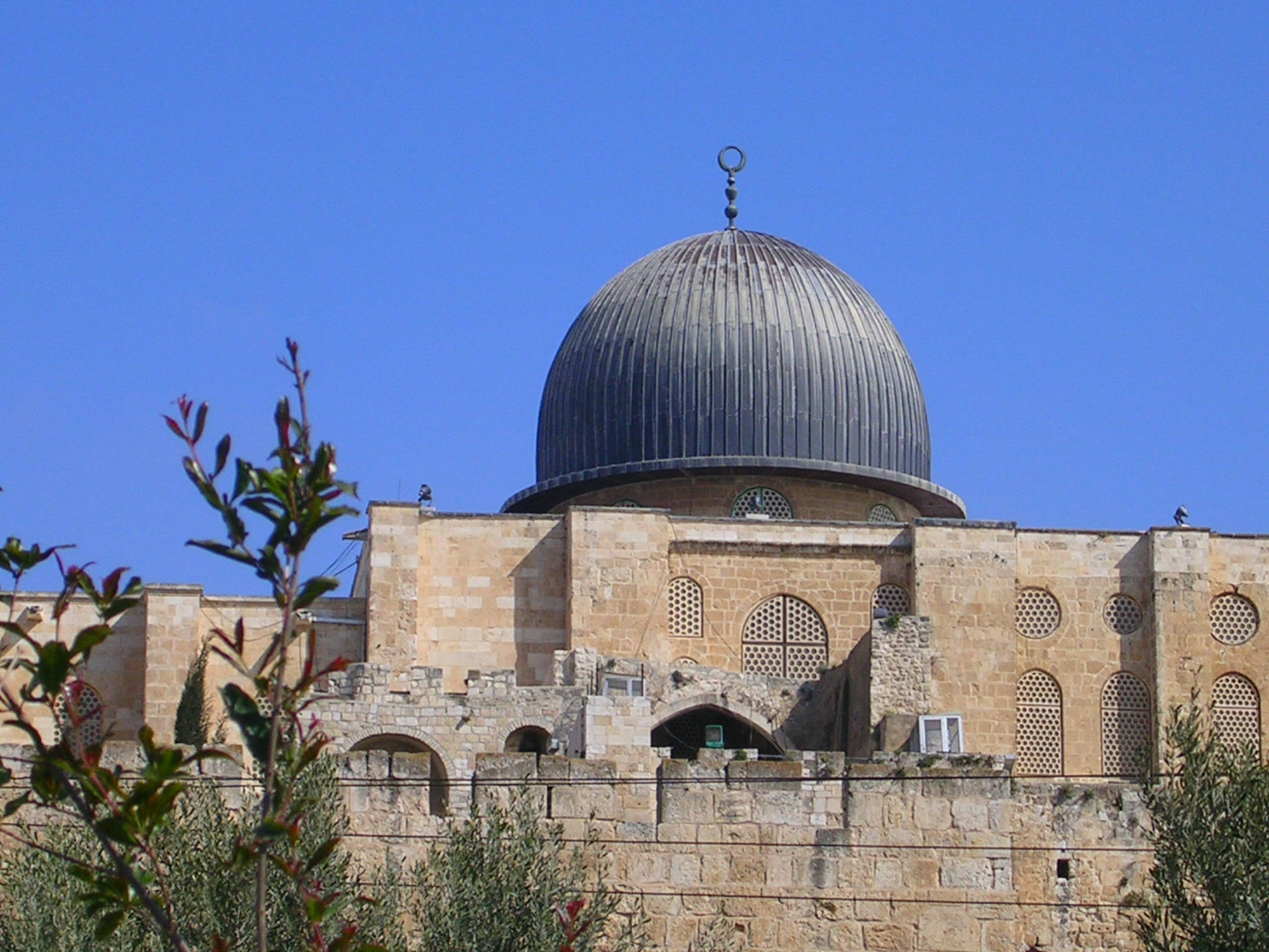 The Al Aqsa Mosque